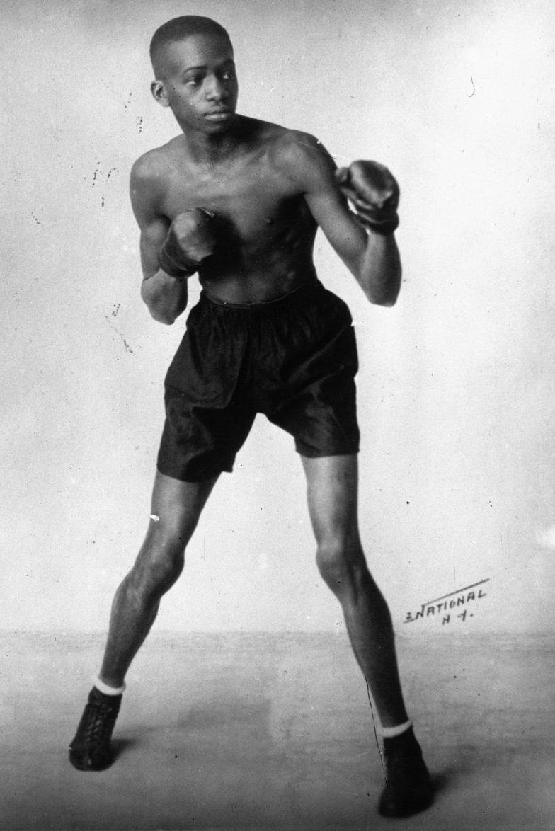 Boxer Al Brown in fighting stance: [press photograph]